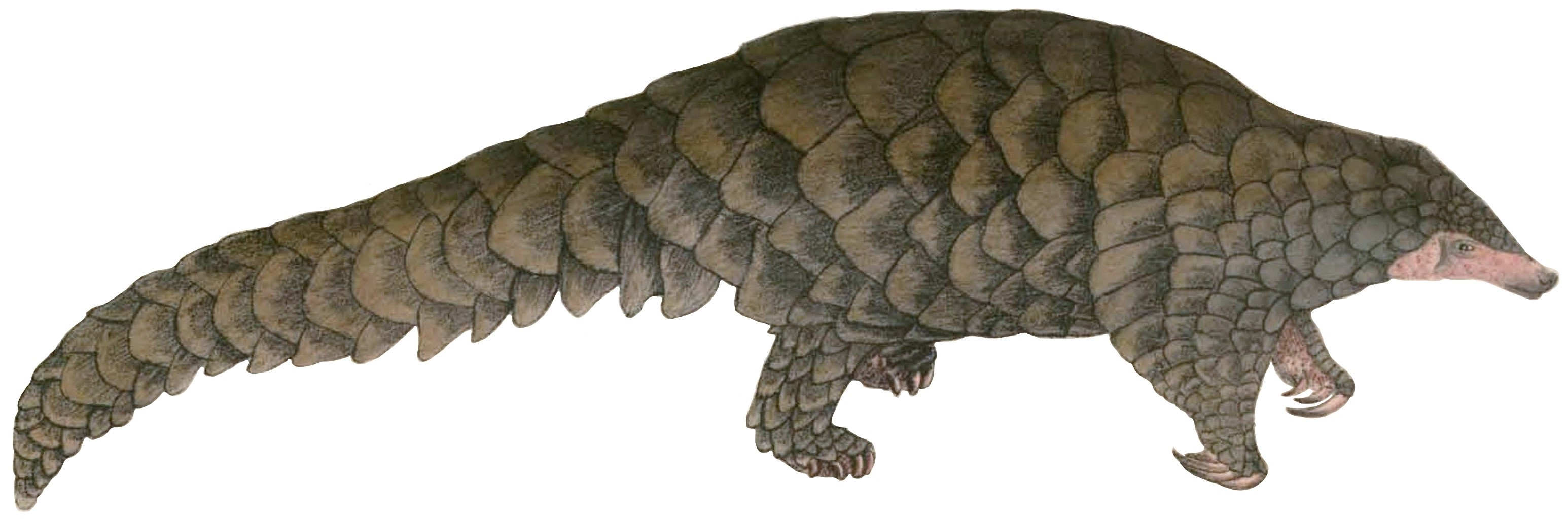 « Manis brachyura » = Manis crassicaudata brachyura (Subspecies of Indian pangolin)